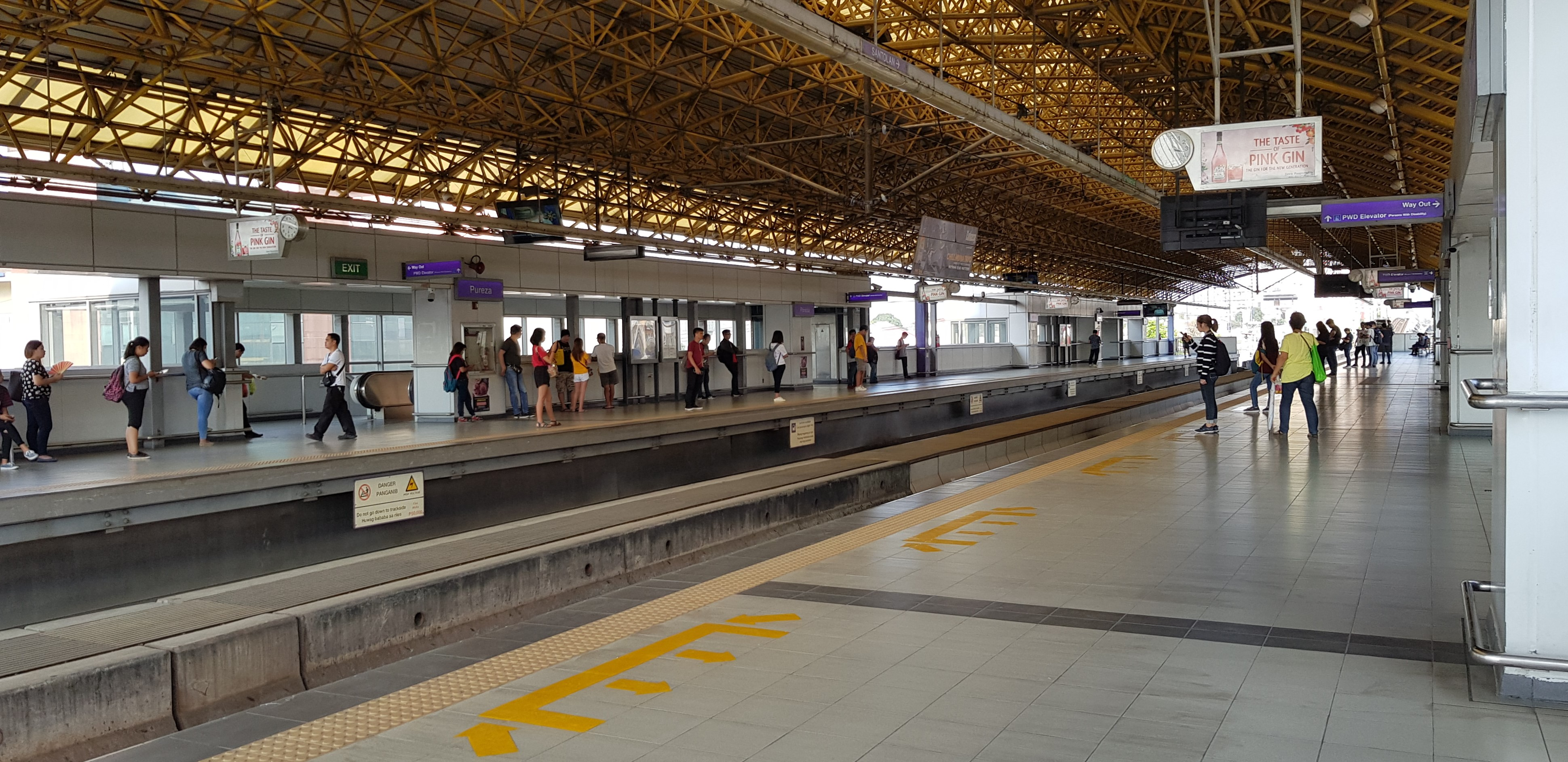 Line 2 Pureza Station Platform